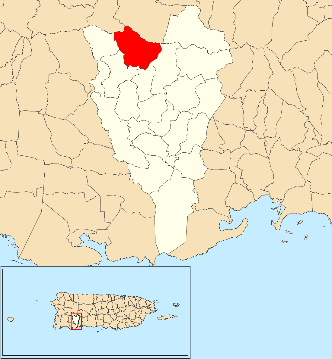 Rubias, Yauco, Puerto Rico locator map